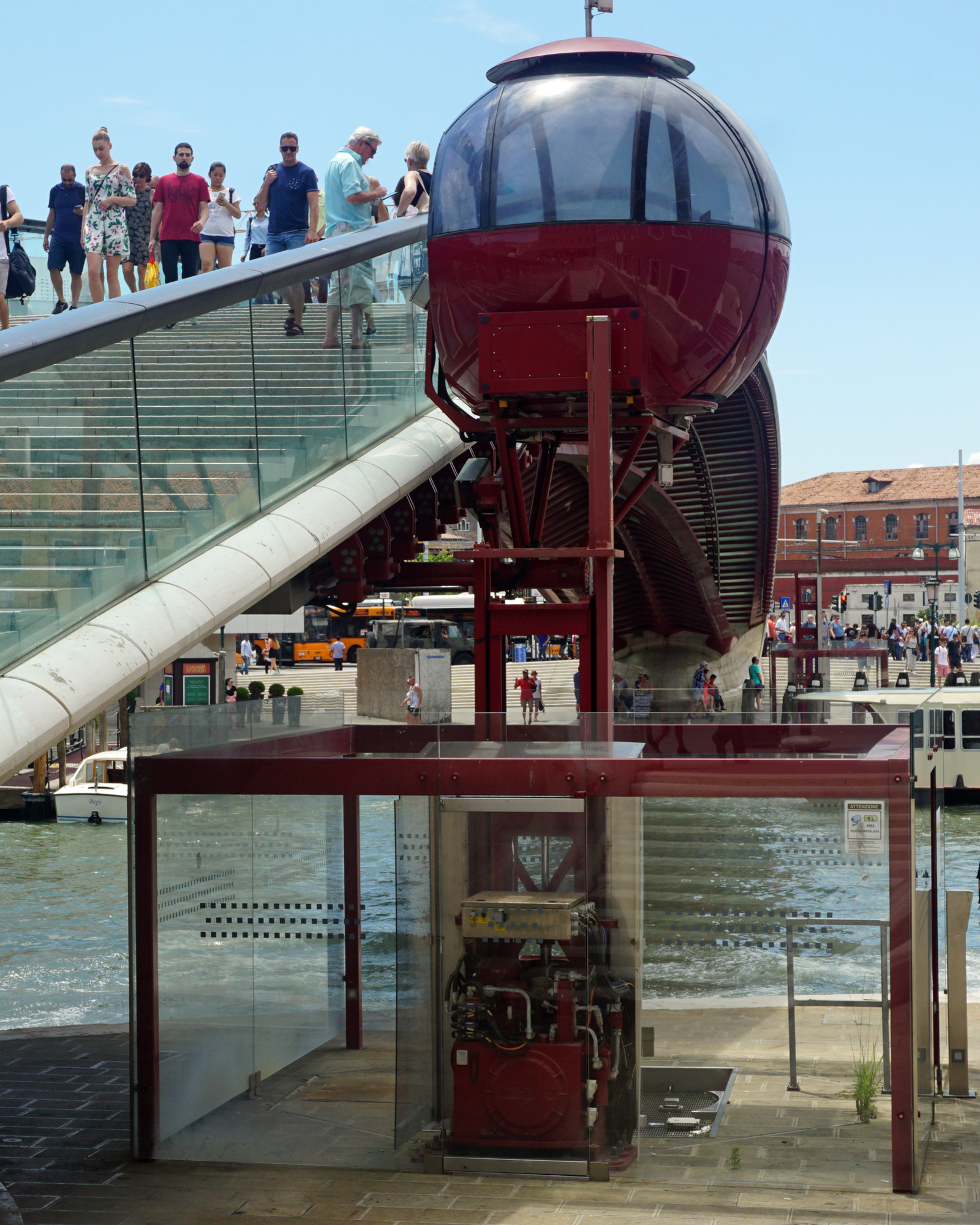 "Egg" shaped wheelchair elevator for crossing the Grand Canal along the Calatrava bridge, Venice, Italy.